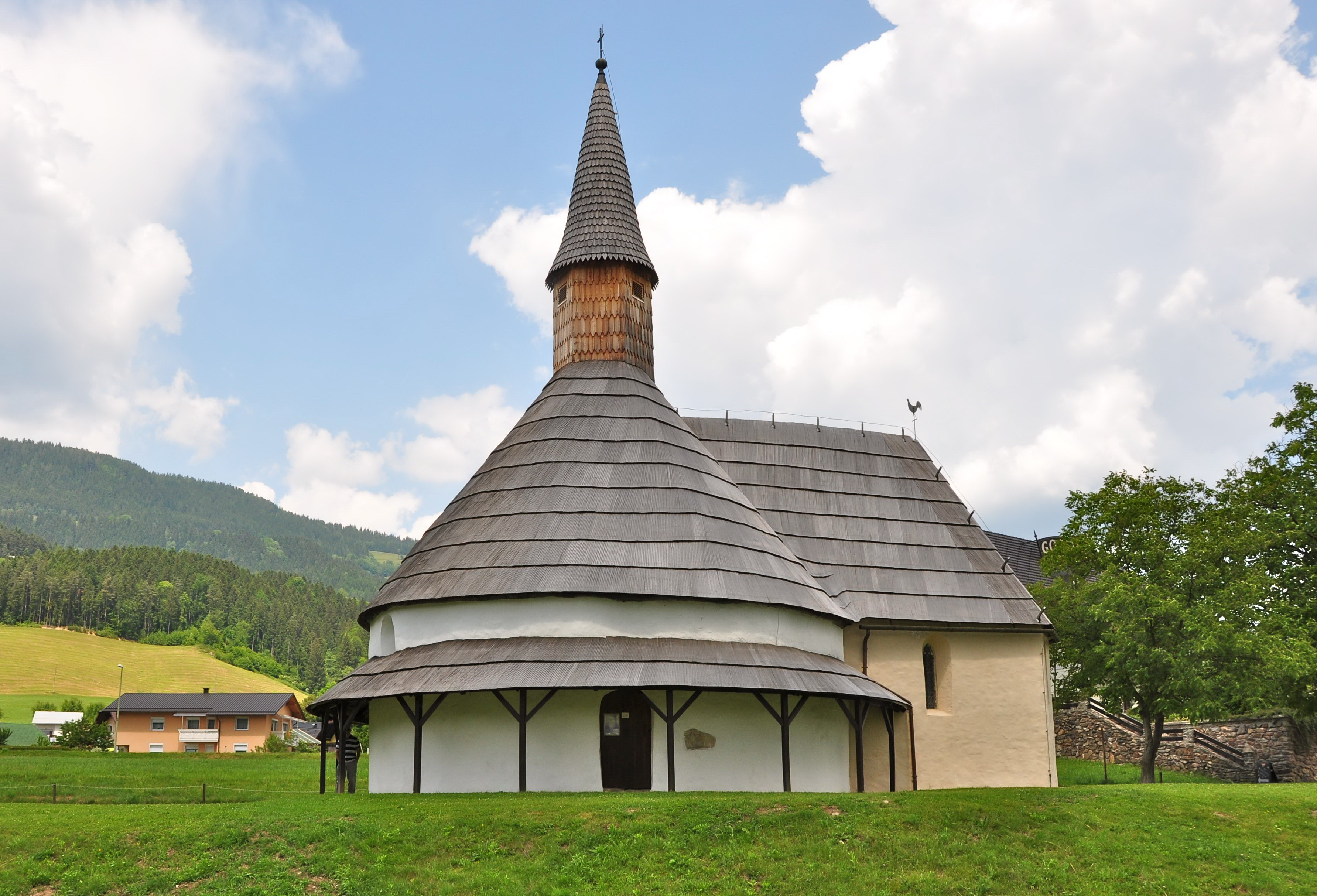 Romanesque church Saint John the Baptist at Muta, municipality of Muta ob Dravi, region Koroška, Slovenia